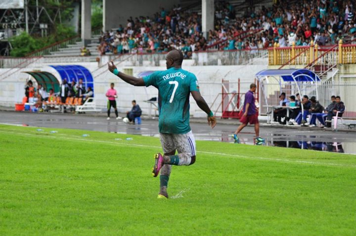 football